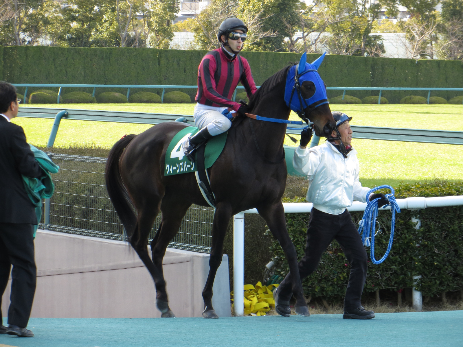 Queen's Barn (Japanese race horse) in 57th Hankyu hai (Hanshin Racecourse).